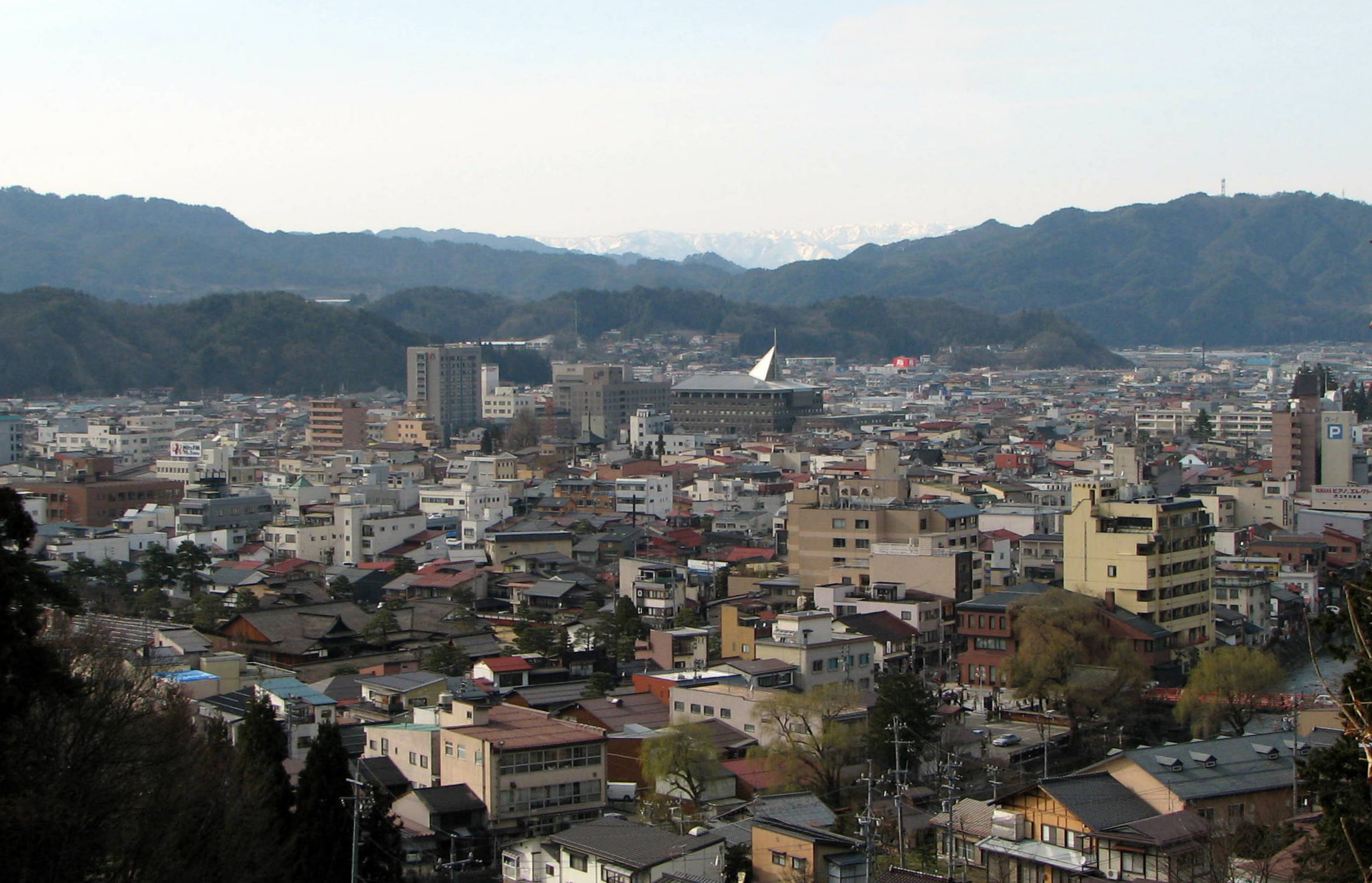 Takayama, view from Shiroyama Park, Takayama, Gifu Prefecture, Japan